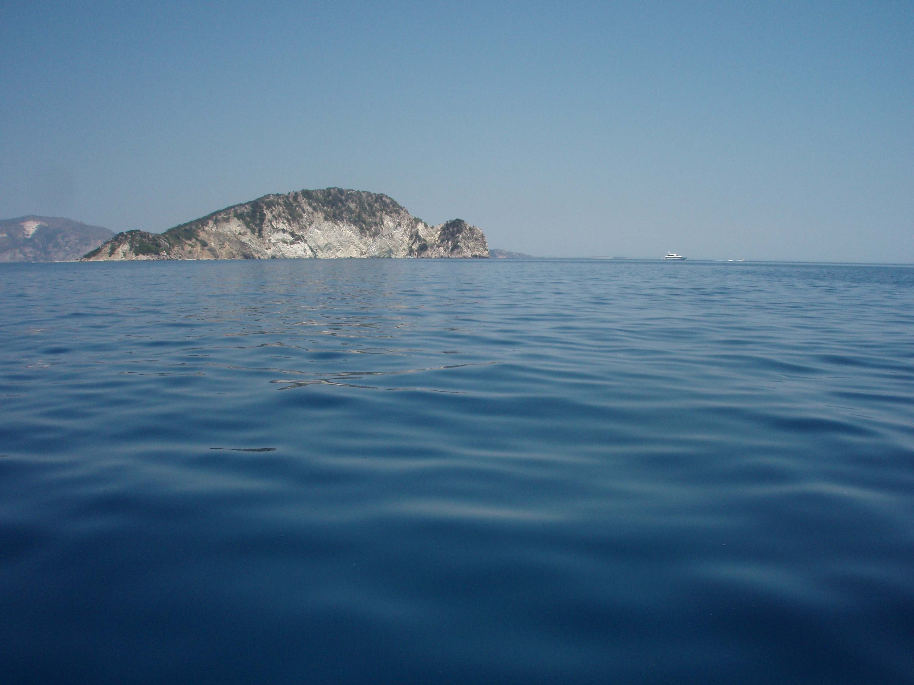 Marathonisi island, Zakynthos, Greece. View on the western side of the island.